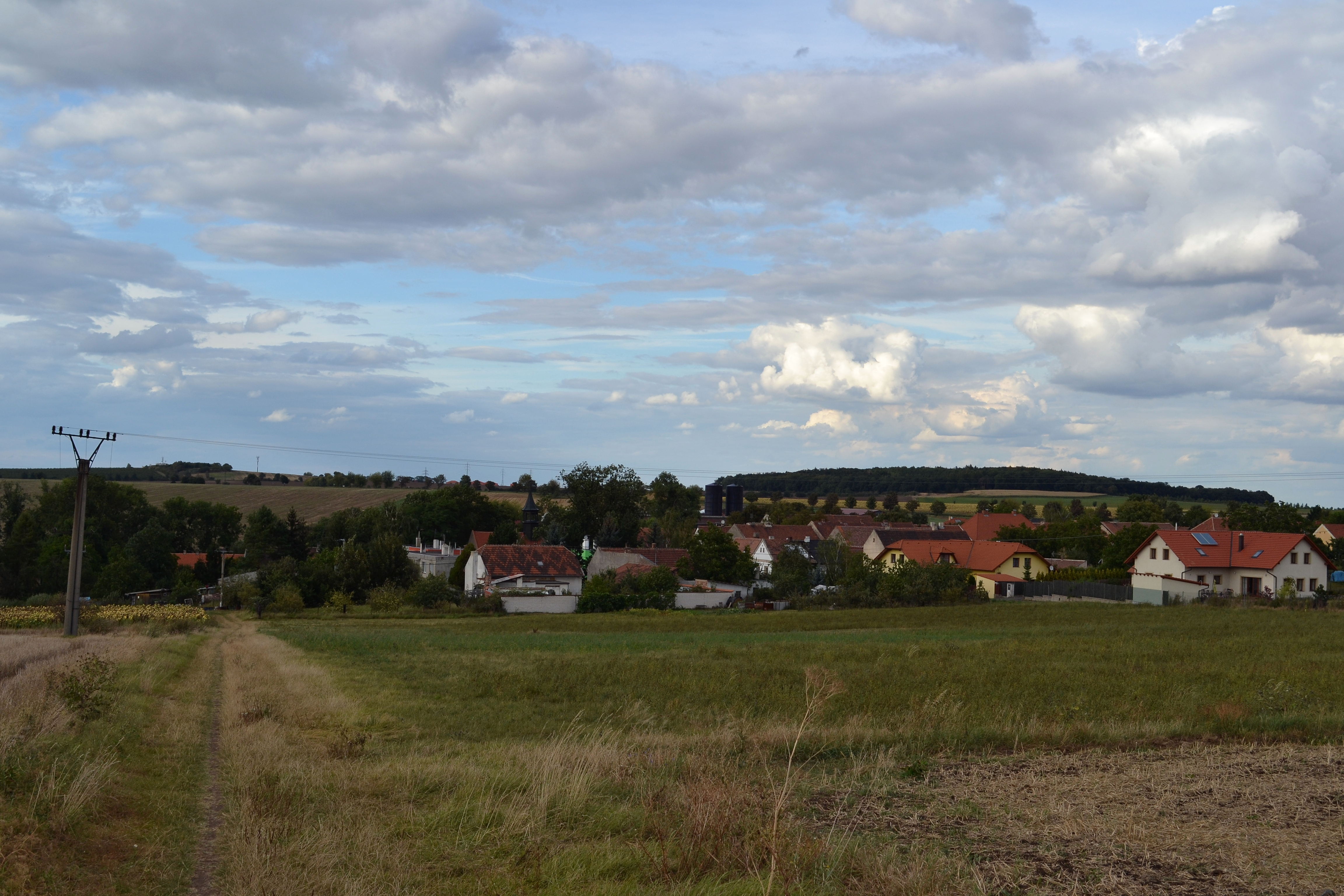 Village Svrkyně (in the foreground) and hill Ers (on the right, in the background), Central Bohemian Region, Czech Republic. View from the direction of the village Noutonice.